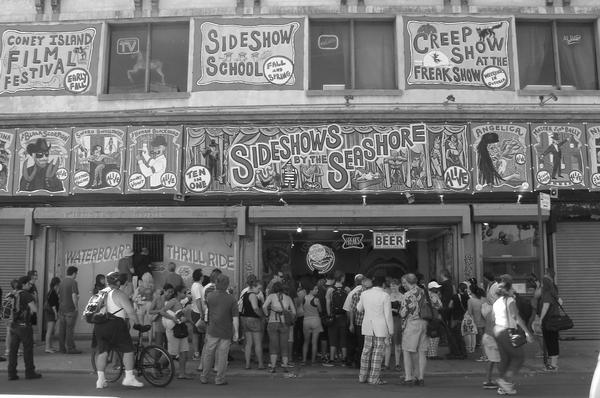 Coney Island Sidshow Entrance 2008.